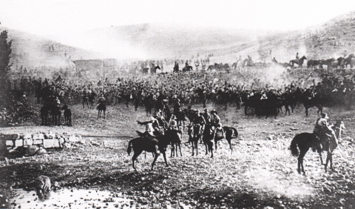 Photograph of Ottoman prisoners captured by the Australian 2nd Light Horse Brigade at the Battle of Amman in Syria. Other information Copyright expired